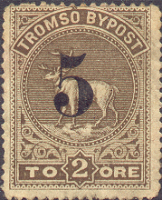 Stamp from local, non-governmental postal distribution in Tromsø, Norway